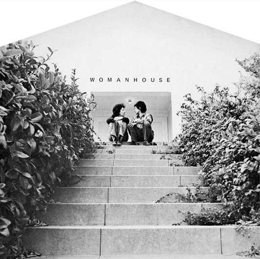 The front page of the exhibition catalog for "Womanhouse" (January 30 – February 28, 1972), feminist art exhibition organized by Judy Chicago and Miriam Schapiro, co-founders of the California Institute of the Arts (CalArts) Feminist Art Program.